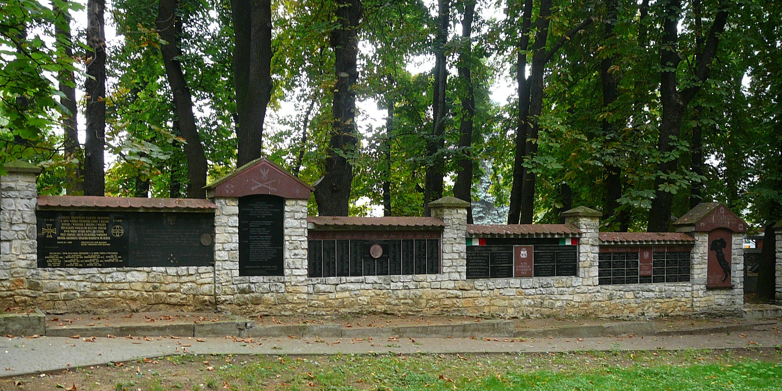 Old Cemetery in Olkusz (Poland). Plaques commemorating Polish independence struggles and soldiers of Second World War.